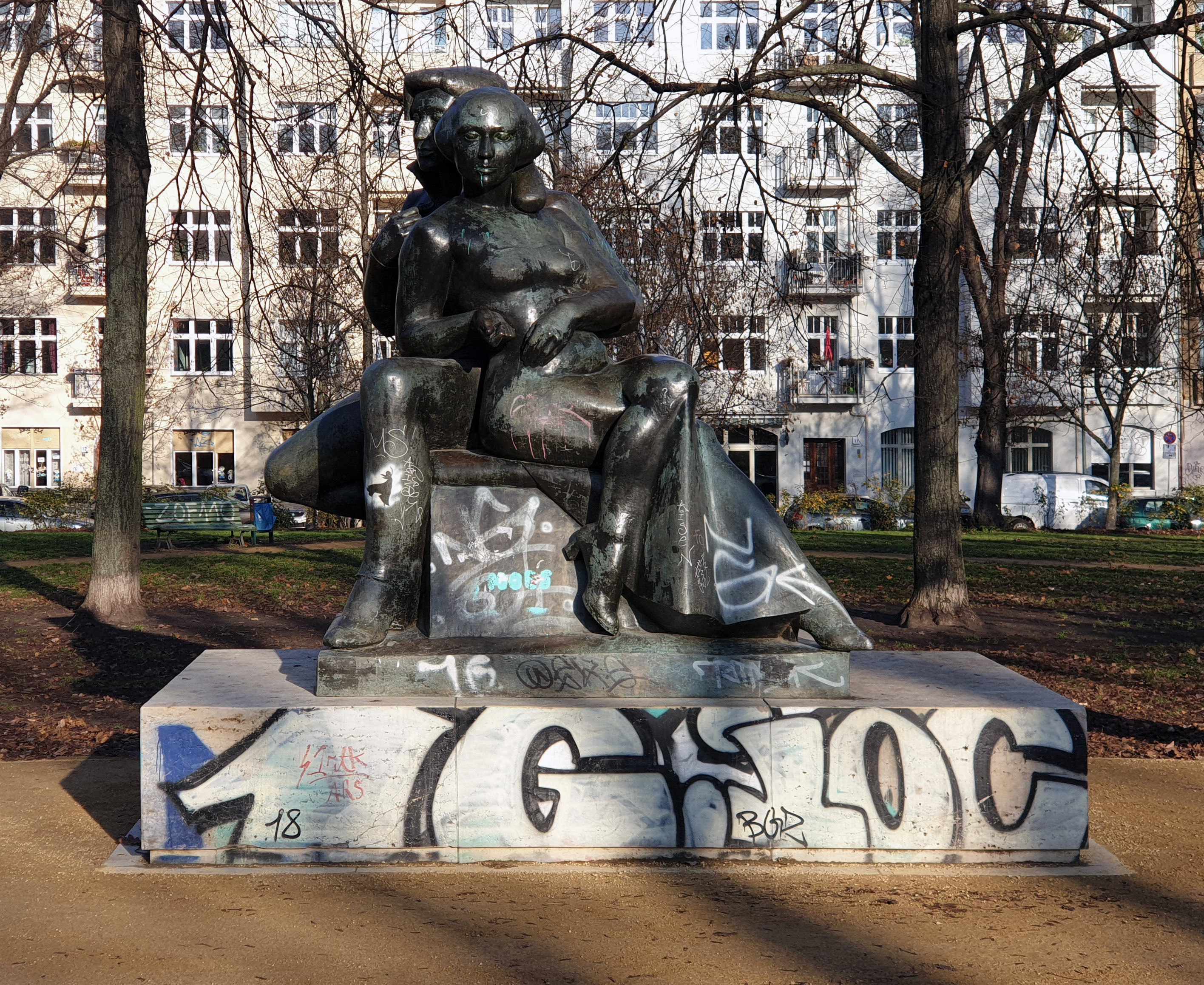 Sculpture, "Bettina und Achim von Arnim" by Michael Klein, 1997, Arnimplatz, Berlin-Prenzlauer Berg, Germany